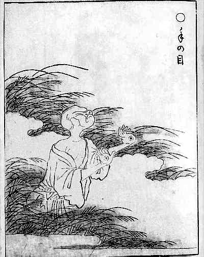 Te-no-me (手の目) from the Gazu Hyakki Yakō